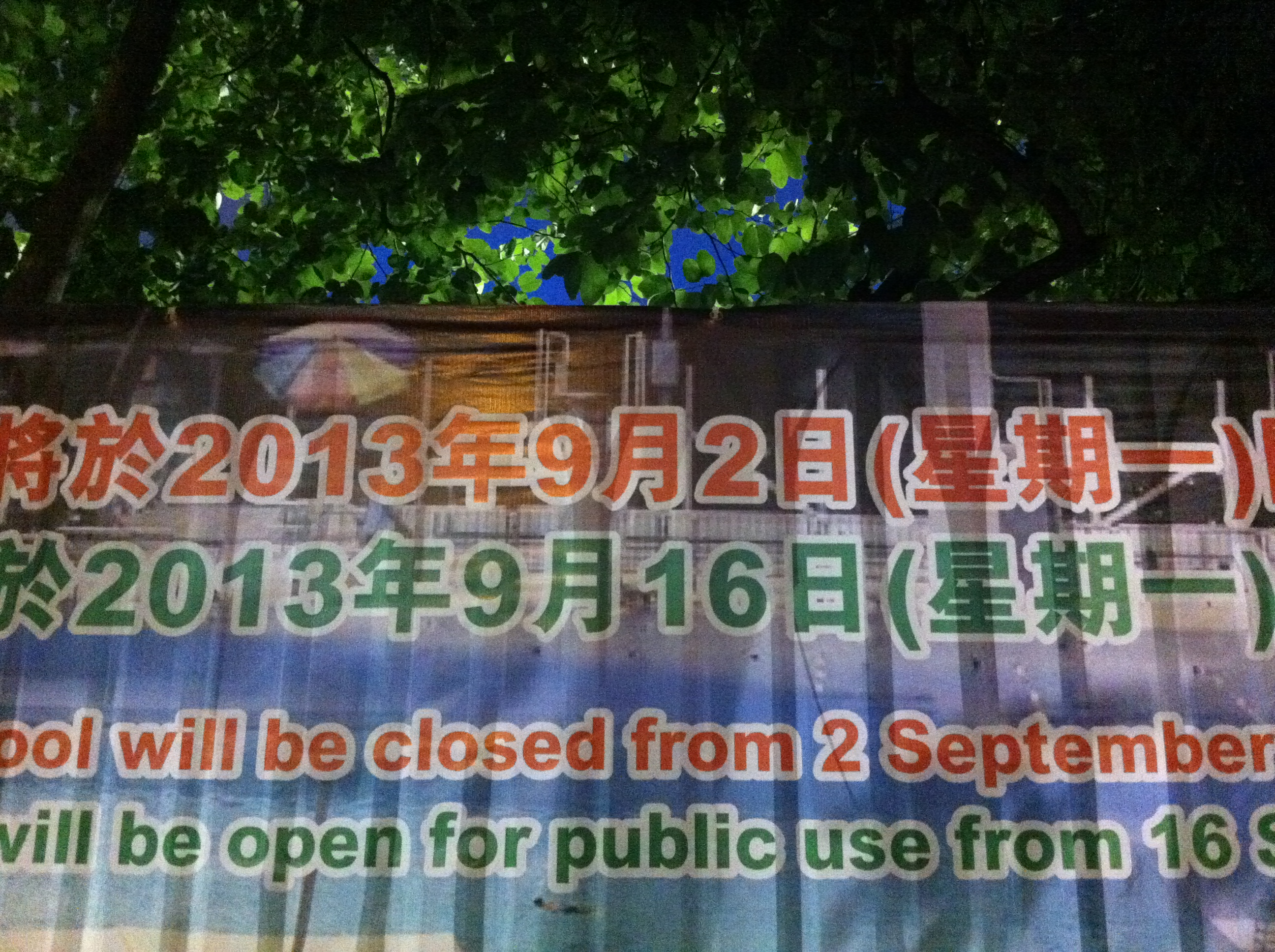 香港島銅鑼灣 維多利亞公園游泳池, Victoria Park Swimming Pool, Hong Kong